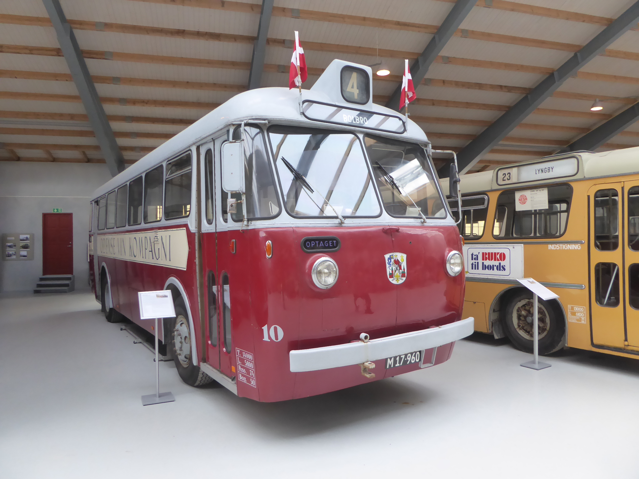 Old bus from Odense, OB 10 build in 1952, in the new bus exhibition hall at Sporvejsmuseet Skjoldenæsholm in Denmark.